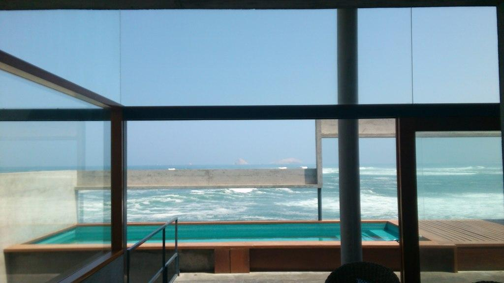 Beach house near Lima, Peru